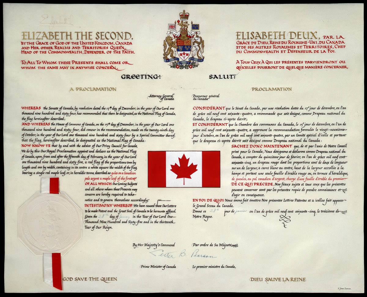 Proclamation of the National Flag of Canada (1965). Proclamation is from January 1965 and Canadian crown copyright only lasts for fifty years, thus it entered public domain in January 2015.